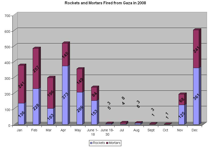 Rockets and Mortars Launched into Israel in 2008. My graph aggregating mortars and rockets from the data provided in